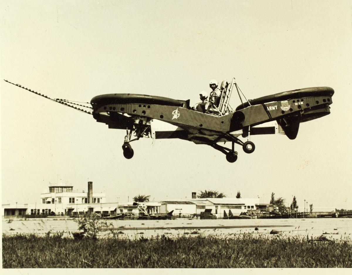 Title: Piasecki AIRGEEP II (Army), first flight on 15 Feb 1962, over grass and concrete mat. NHHS Photo Subject: Piasecki AIRGEEP II (Army), first flight on 15 Feb 1962, over grass and concrete mat. NHHS #: 1999.032.023 Catalog #: 13_000128 Type: NHHS Photo Format: BW Glossy Photo Location: NHHS Collection Box 1 Repository : San Diego Air and Space Museum Archive